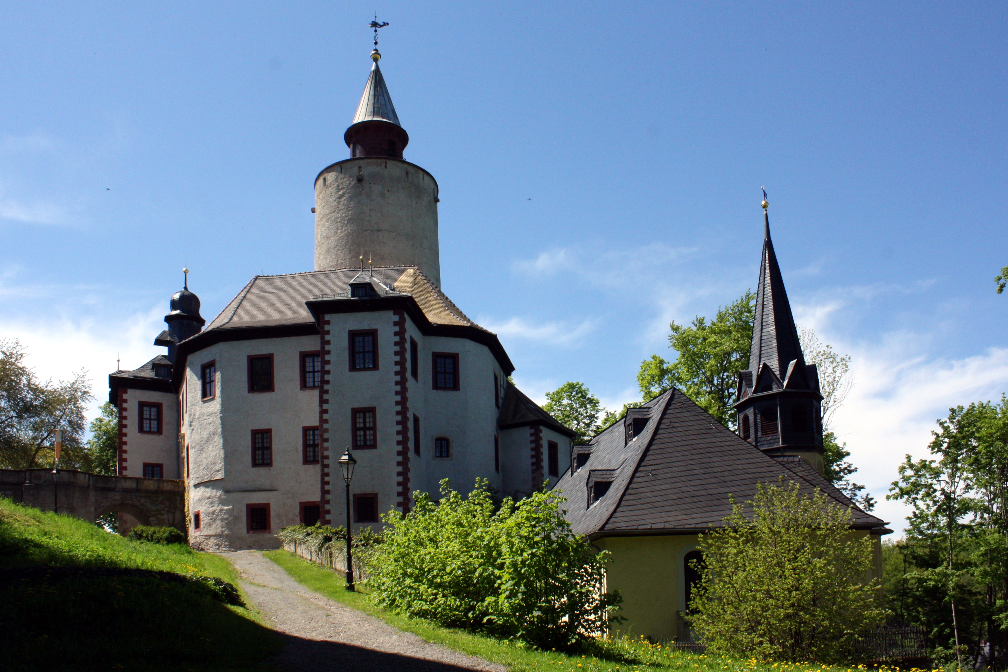 Castle and church in Posterstein near Gera/Thuringia